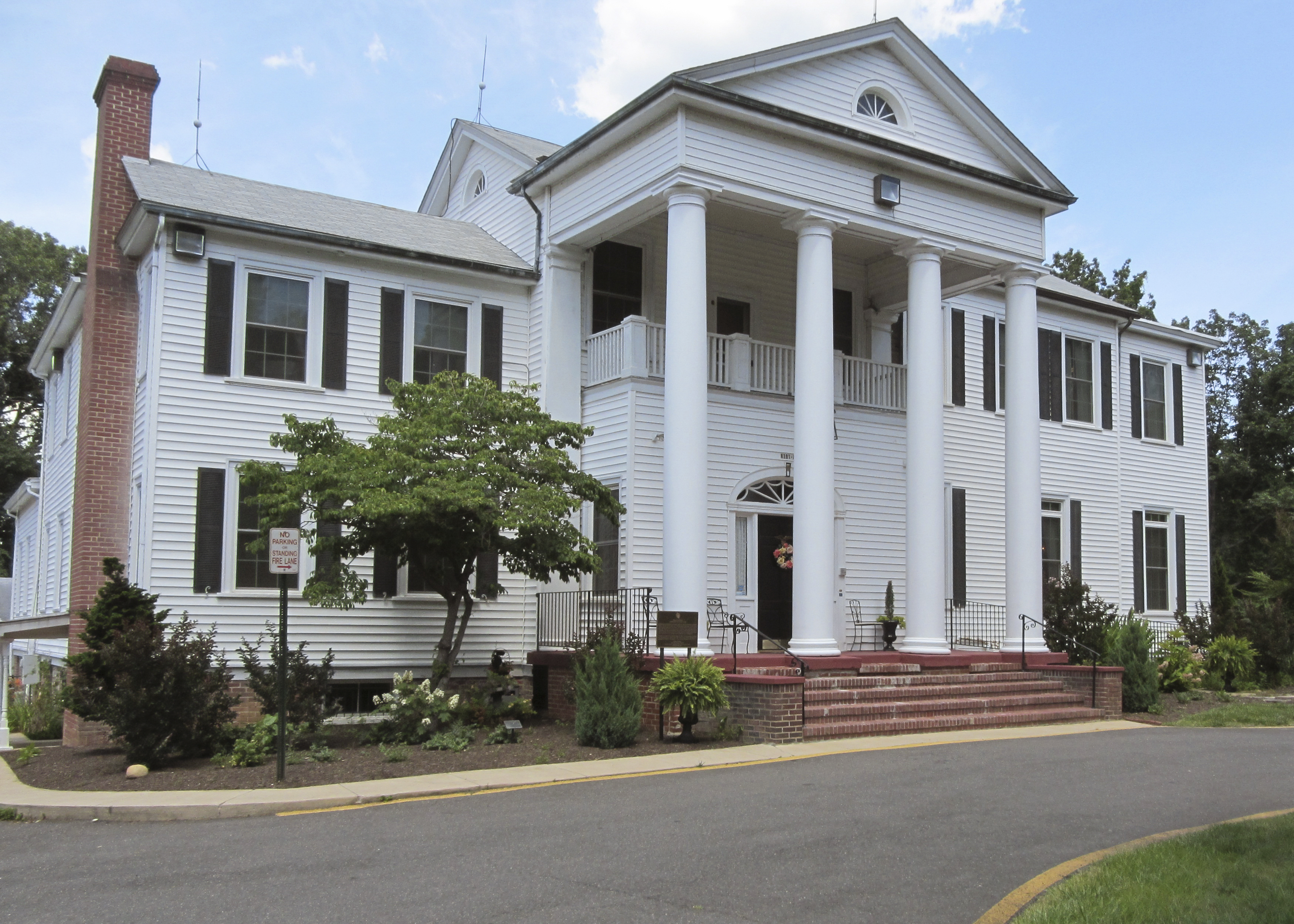 For the Did You Know section on Wikipedia